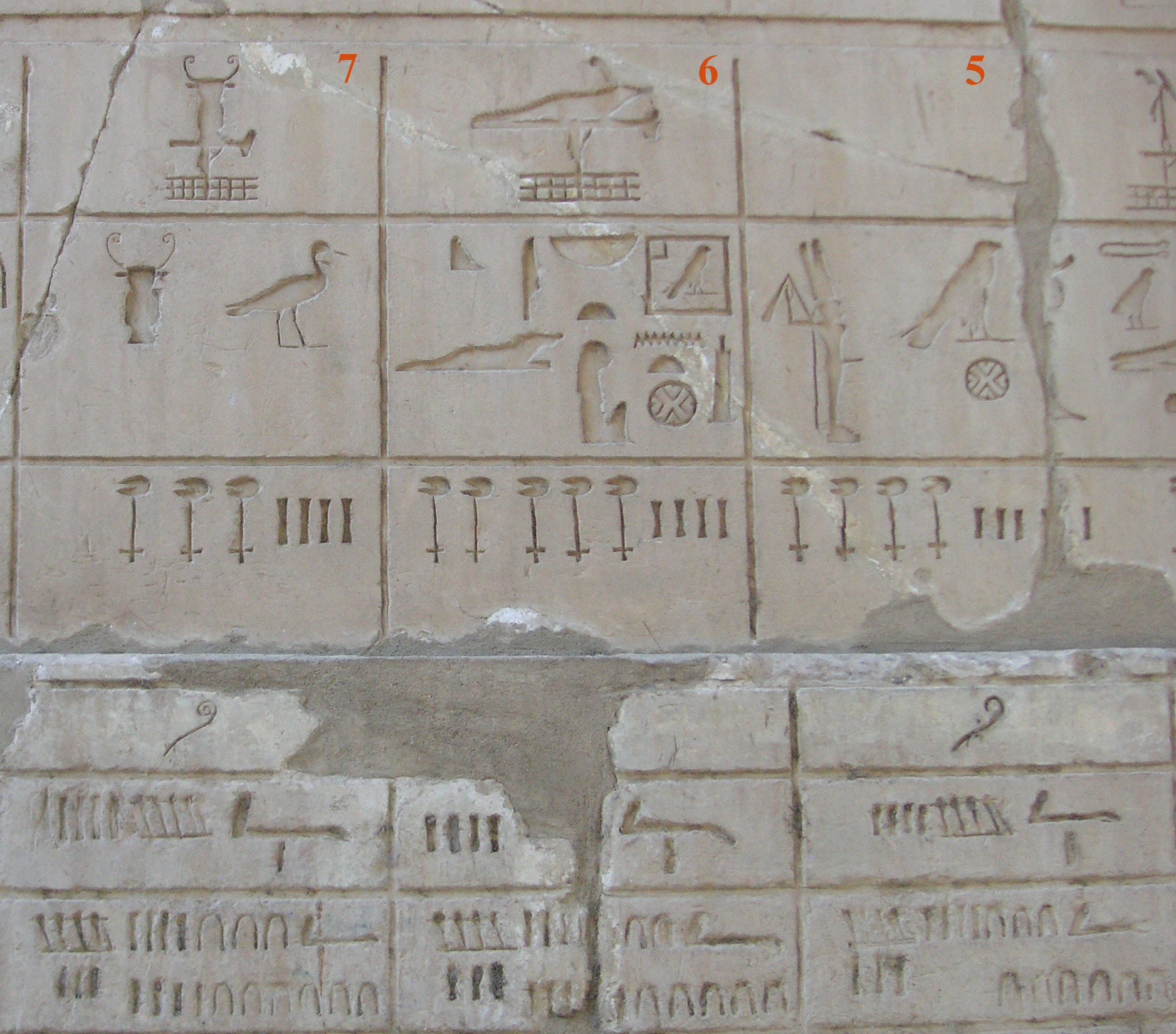 Nome 5 to 7 of Upper Egypt (list of Sesostris I.)